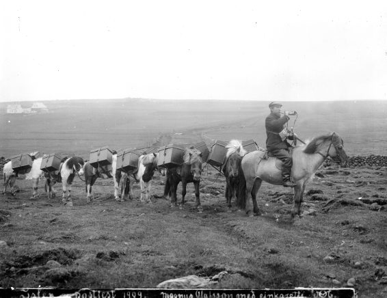 1909, Hans póstur blæs í lúður. Ljósmyndari / Photographer: Magnús Ólafsson Format: Glerplata / Glass negatives, 12 x 16 cm. Höfundarréttur / Rights Info: Enginn þekktur höfundarréttur / No known restrictions on publication. Geymsla / Repository: Ljósmyndasafn Reykjavíkur / Reykjavík Museum of Photography, Tryggvagata 15, 6. Hæð / 6th floor Númer myndar / Call Number: MAÓ 821 Myndavefur Ljósmyndasafnsins / Reykjavík Museum of Photography´s photoweb: ljosmyndasafn.reykjavik.is/fotoweb/Grid.fwx